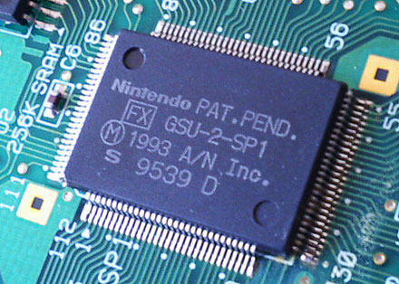 Super FX coprocessor is within SMW2: Yoshi's Island game cartridge.